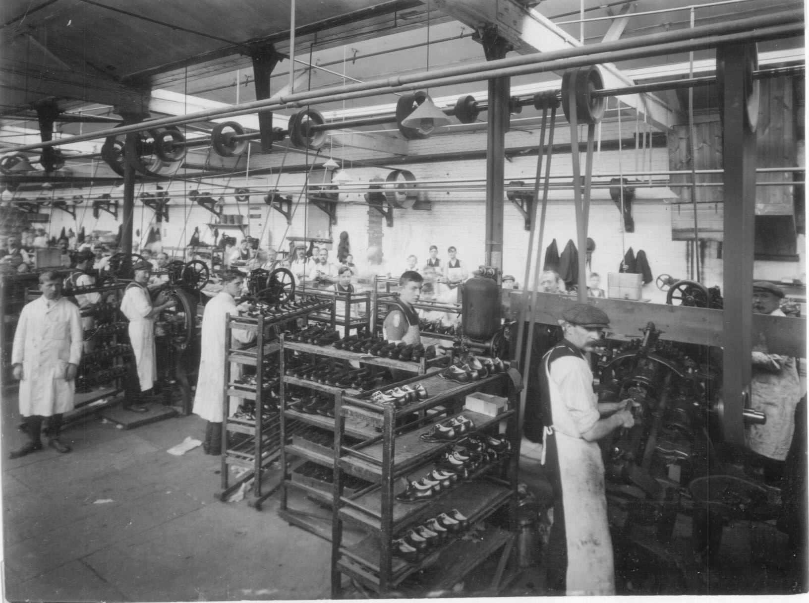 Photograph of a Clarks Factory making shoes - vintage.